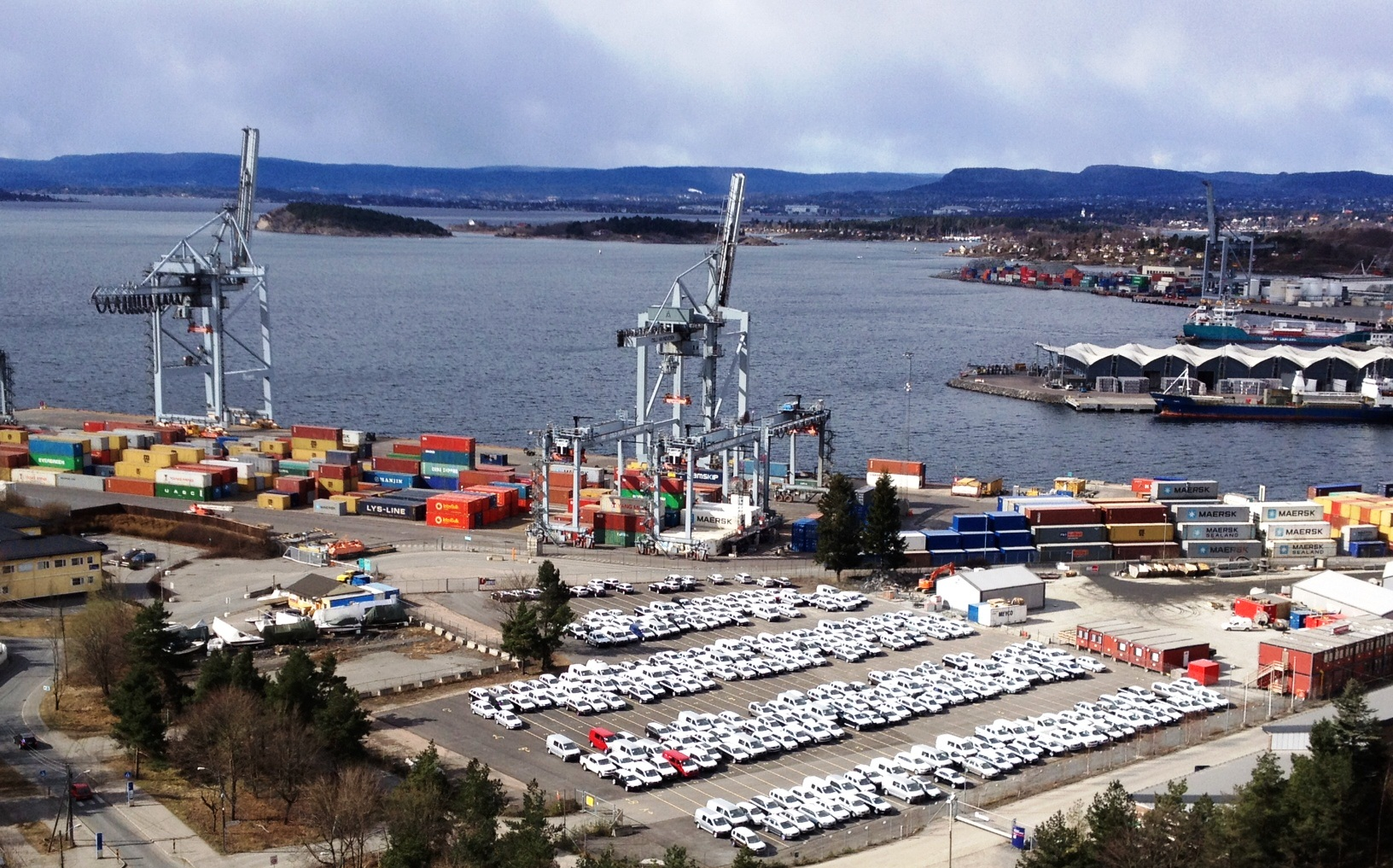 Ormsundkaia, Oslo, Norway